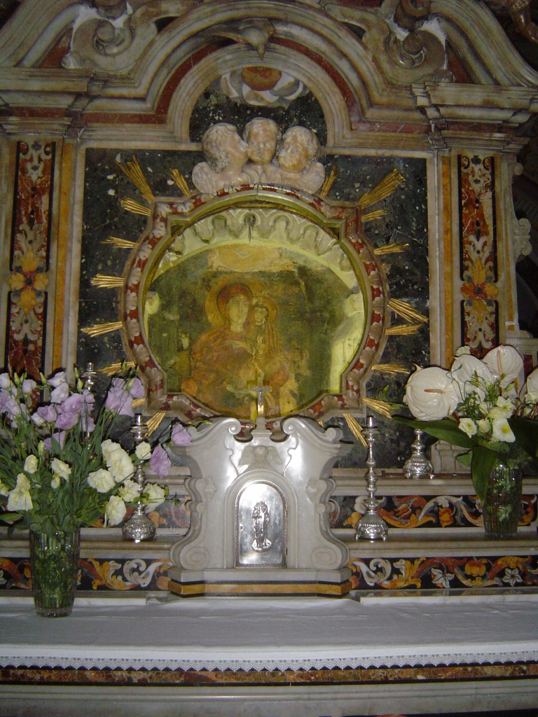 Image of Maria Achiropita, Rossano Cathedral, Rossano (CS), Italy